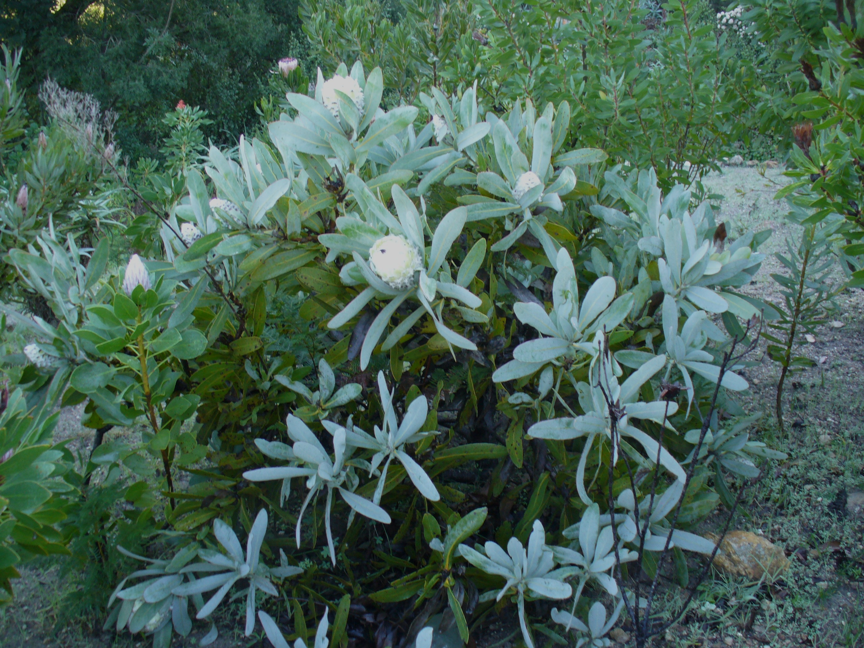 Queen Protea bush.